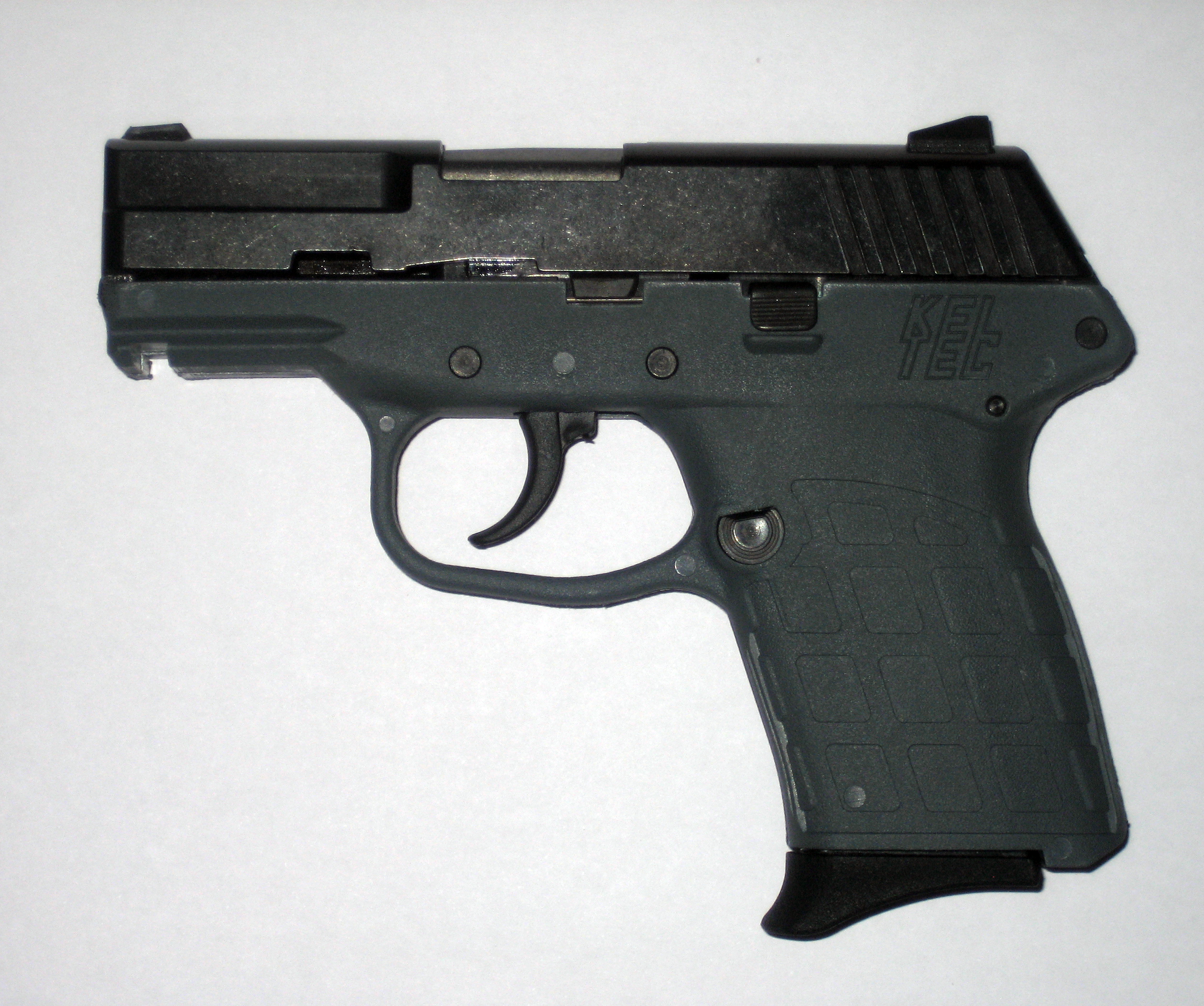 Side view of a Kel-Tec PF-9 9mm, semi-automatic, single stack magazine pistol. Pistol is blued finish with gray grip. Magazine has the grip extending floorplate installed.